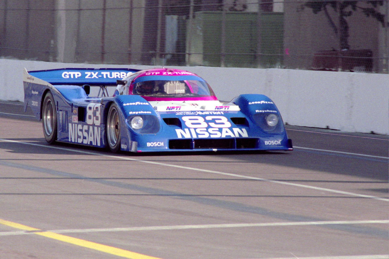 IMSA Del Mar Grand Prix - October 1990